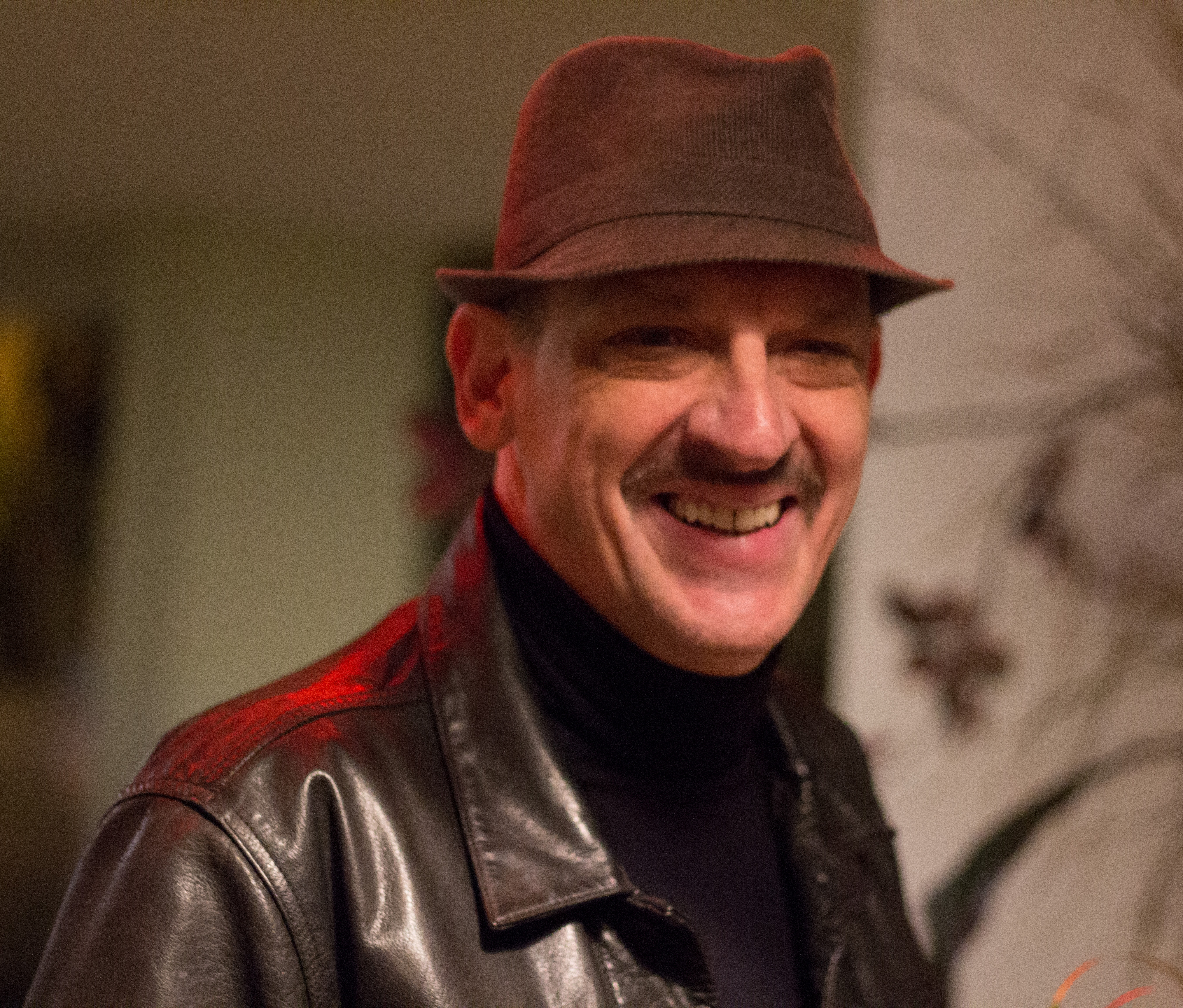 Peter Van Den Begin at the 49th International Film Festival Rotterdam to promote the movie "The Barefoot Emperor"